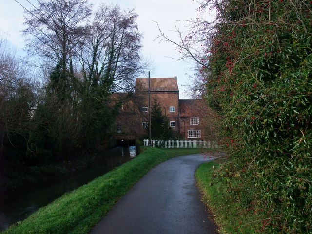 Rolleston Mill A Grade II listed water mill on the River Greet.